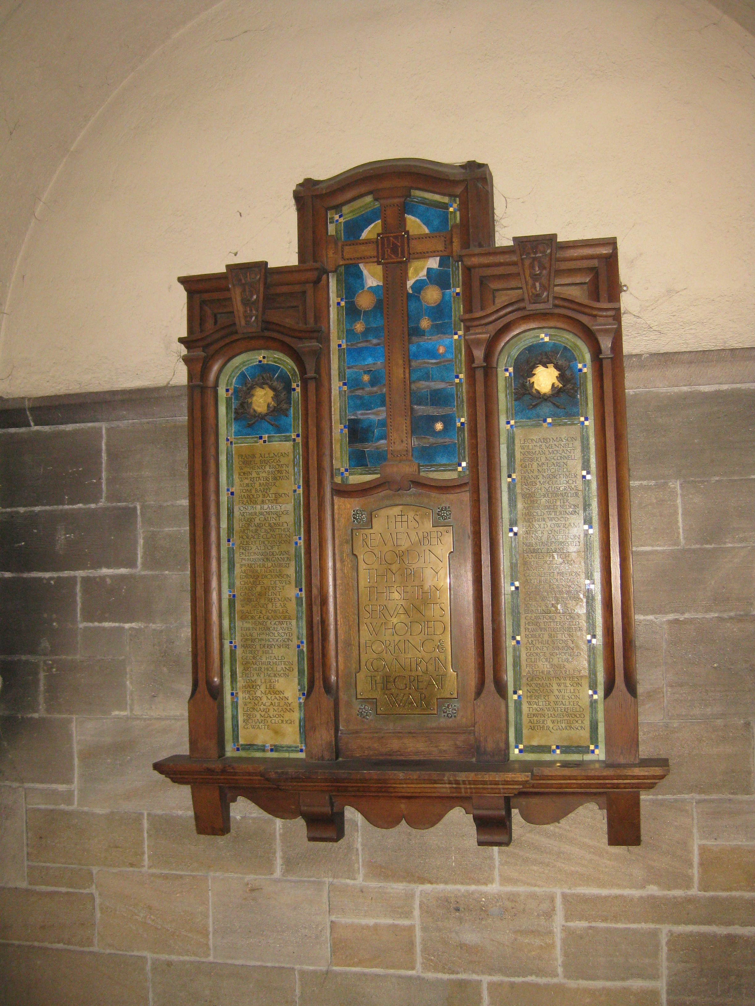 War memorial inside Left Bank (arts centre), Cardigan Road, Leeds. The former Church of St Margaret of Antioch.